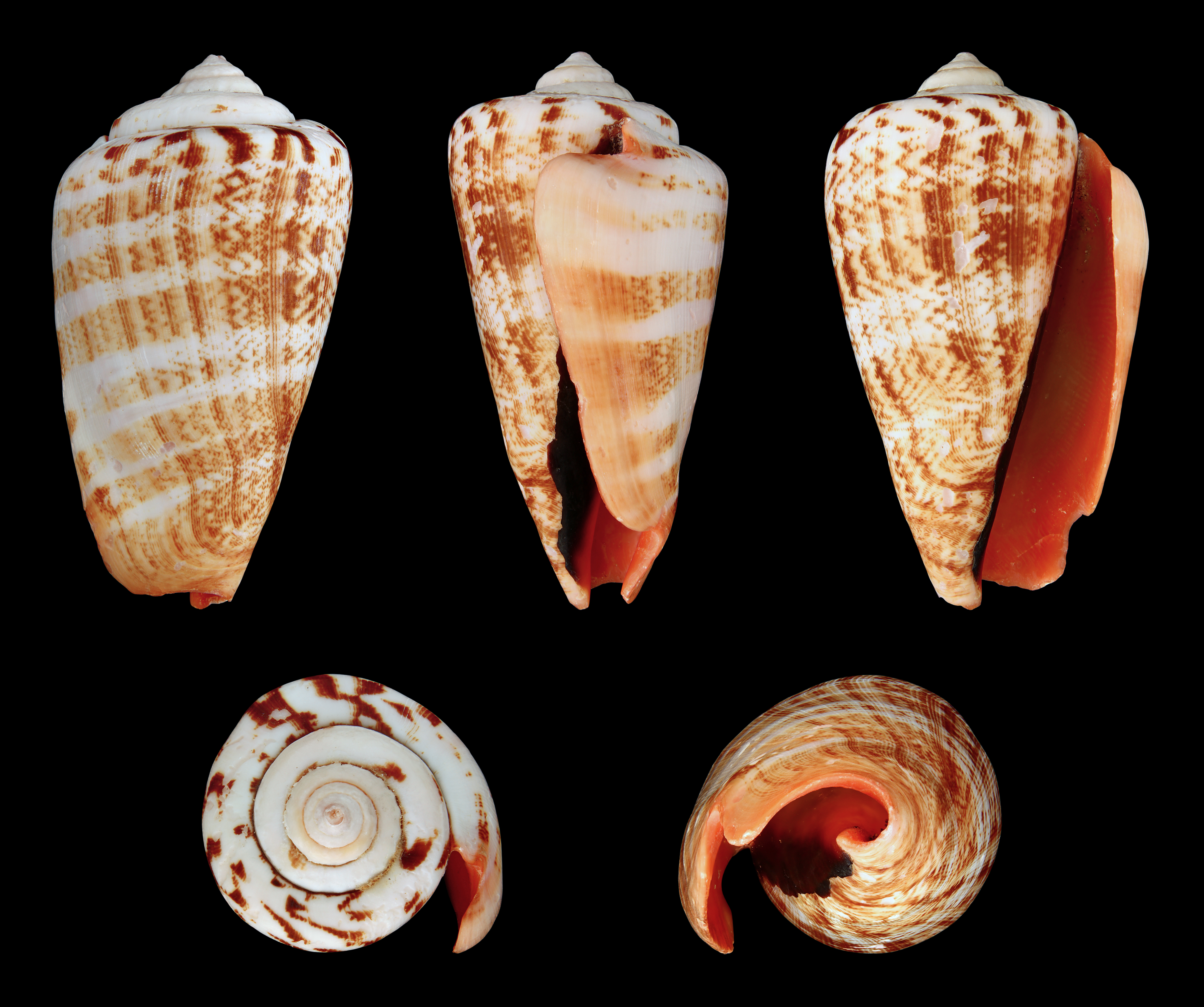 Strawberry Conch, Length 5.8 cm; Originating from the Philippines; Shell of own collection, therefore not geocoded. Dorsal, lateral (right side), ventral, back, and front view.